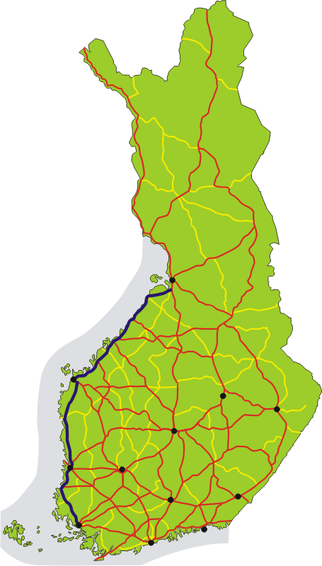 Map of the main road 8 in Finland, shown in dark blue. The other 1st class main roads (numbers 1–29) are red, 2nd class main roads (numbers 40–98) yellow. Black dots show the 12 biggest urban areas.